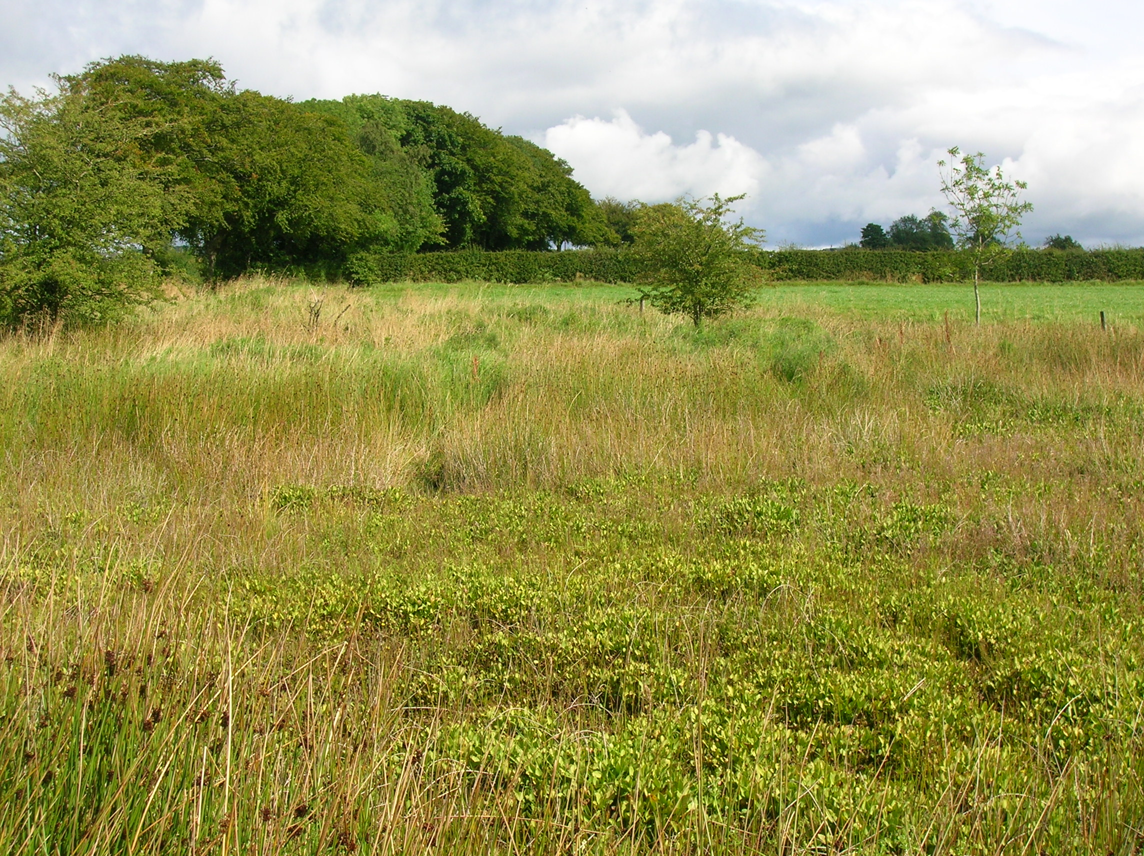 The Baney Hole near Windyhouse Farm, Barrmill, Ayrshire, Scotland. An old quarry or bell pit.